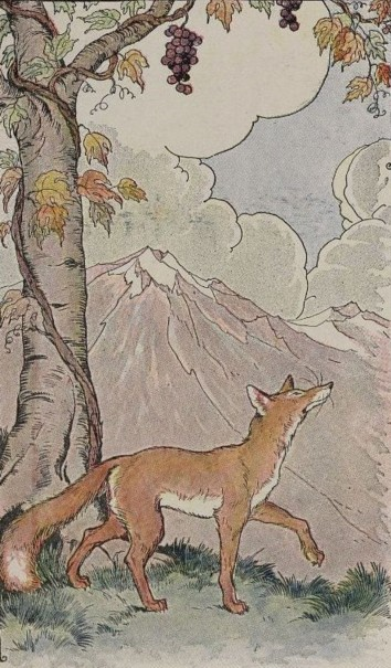 "The Fox and the Grapes".